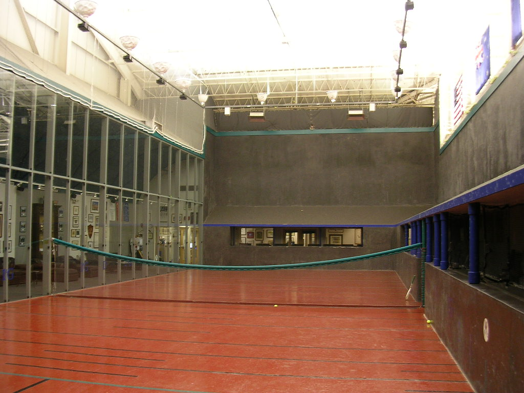 Receiver's view of the main wall and dedans of the real tennis court at the International Tennis Club of Washington in McLean, Virginia. 38°55′6″N 77°12′58″W / 38.91833°N 77.21611°W